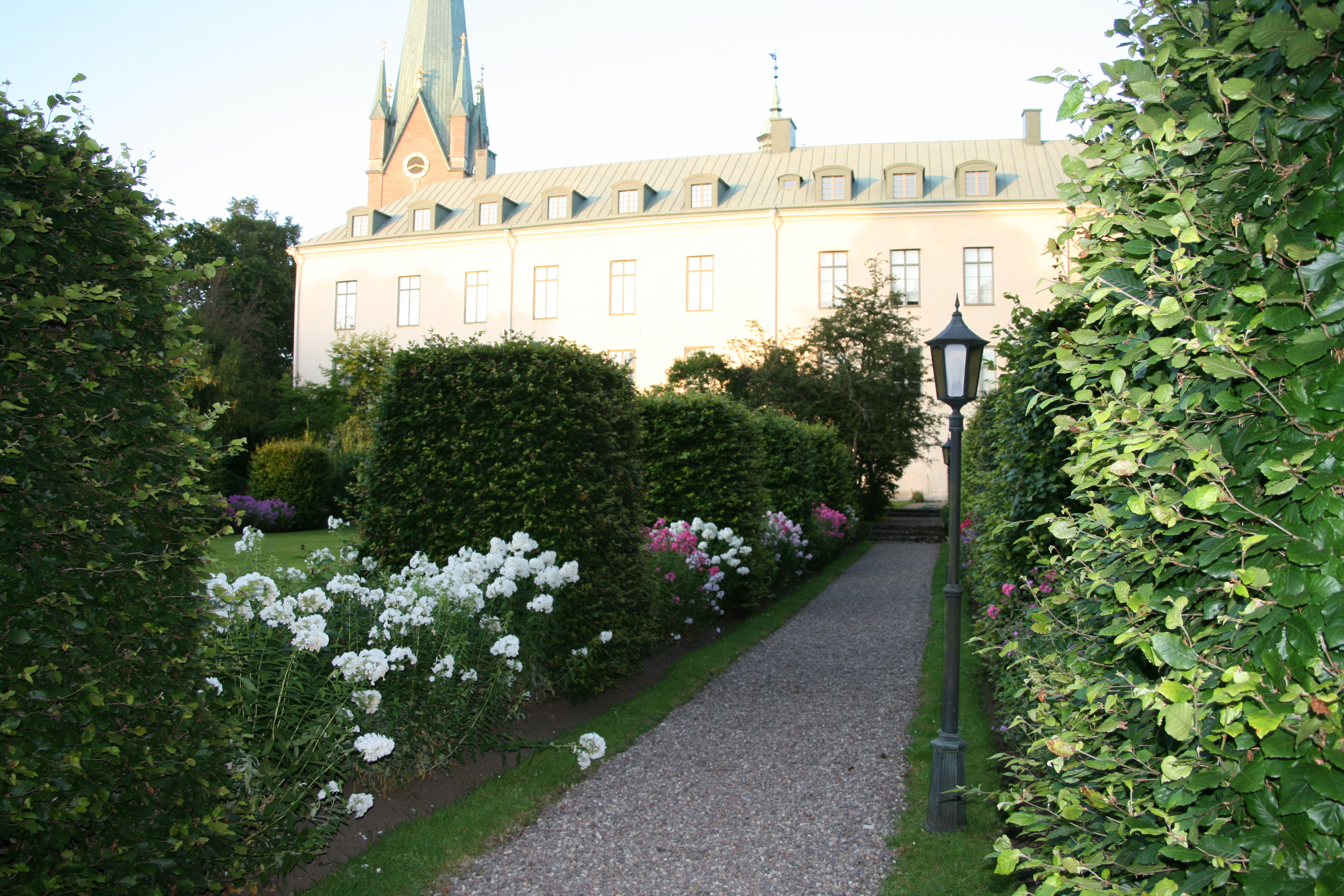 Path lighting. Lamp post and square-cut bushes in the private garden of Linköping Castle, in central Linköping, Sweden. West facade of the castle, and tower of Linköping cathedral.